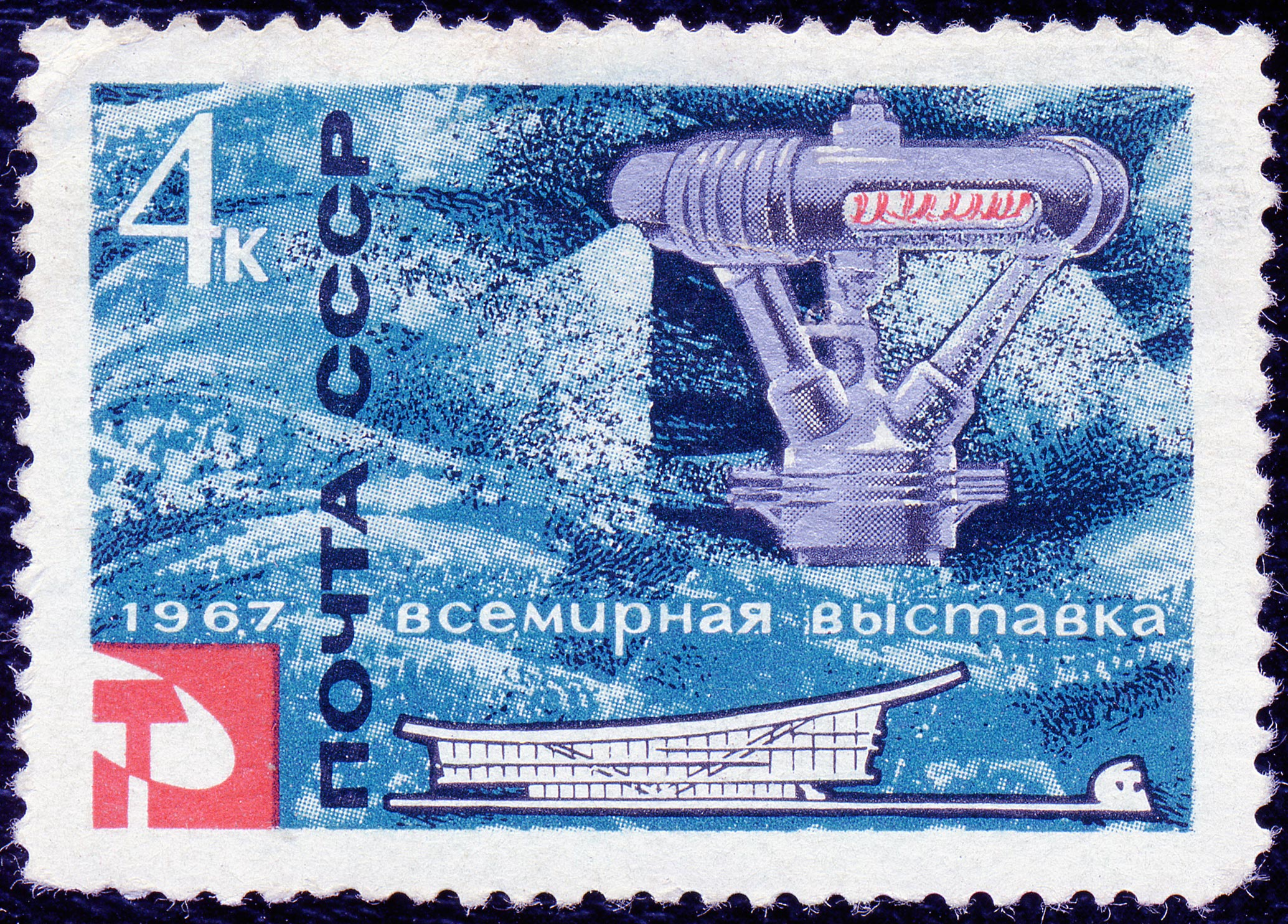 Stamp of the Soviet Union, 1967. Montreal, Expo 67.